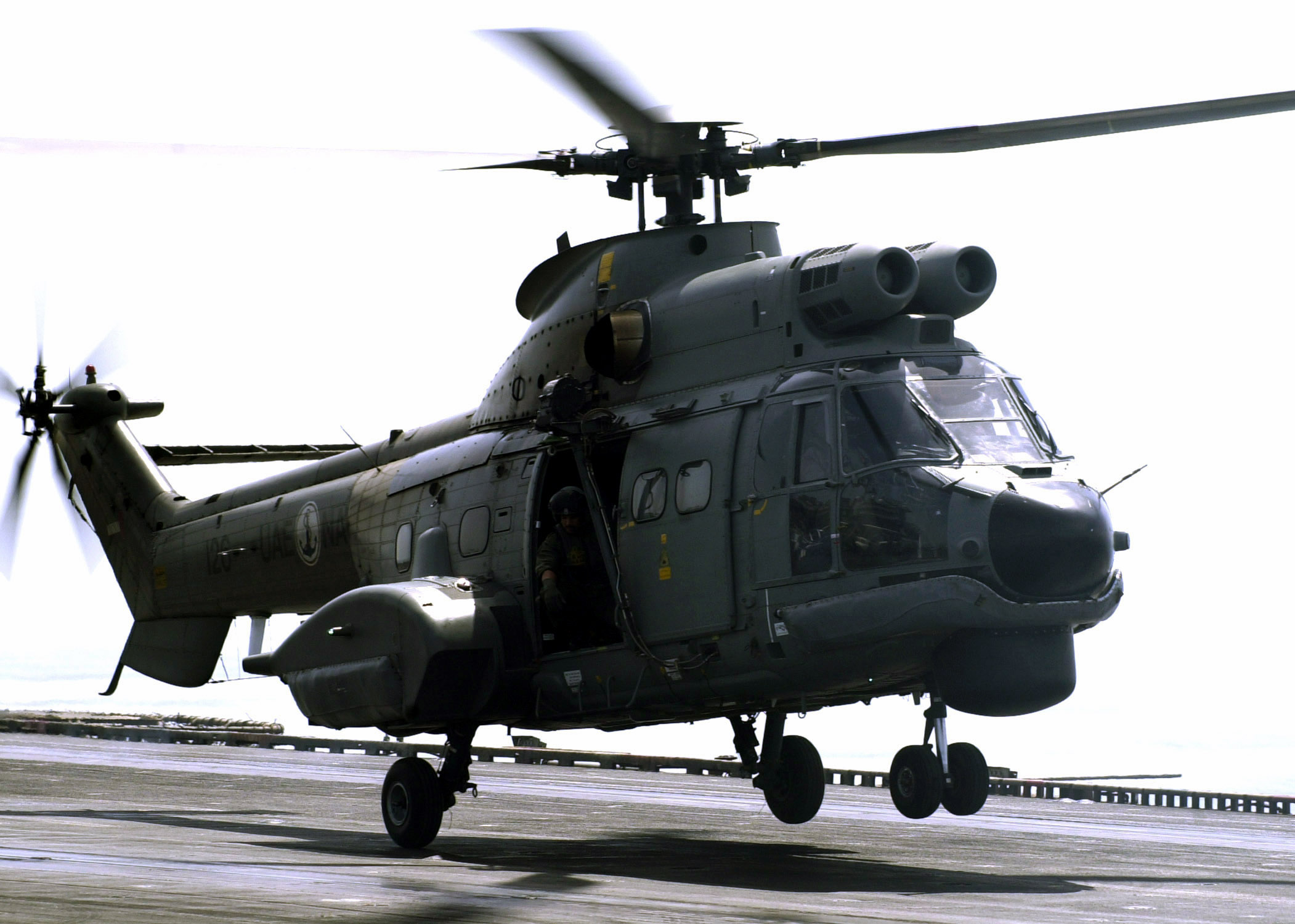 A United Arab Emirates (UAE) Navy AS332B Super Puma lands on the flight deck aboard USS Constellation (CV 64) to refuel.